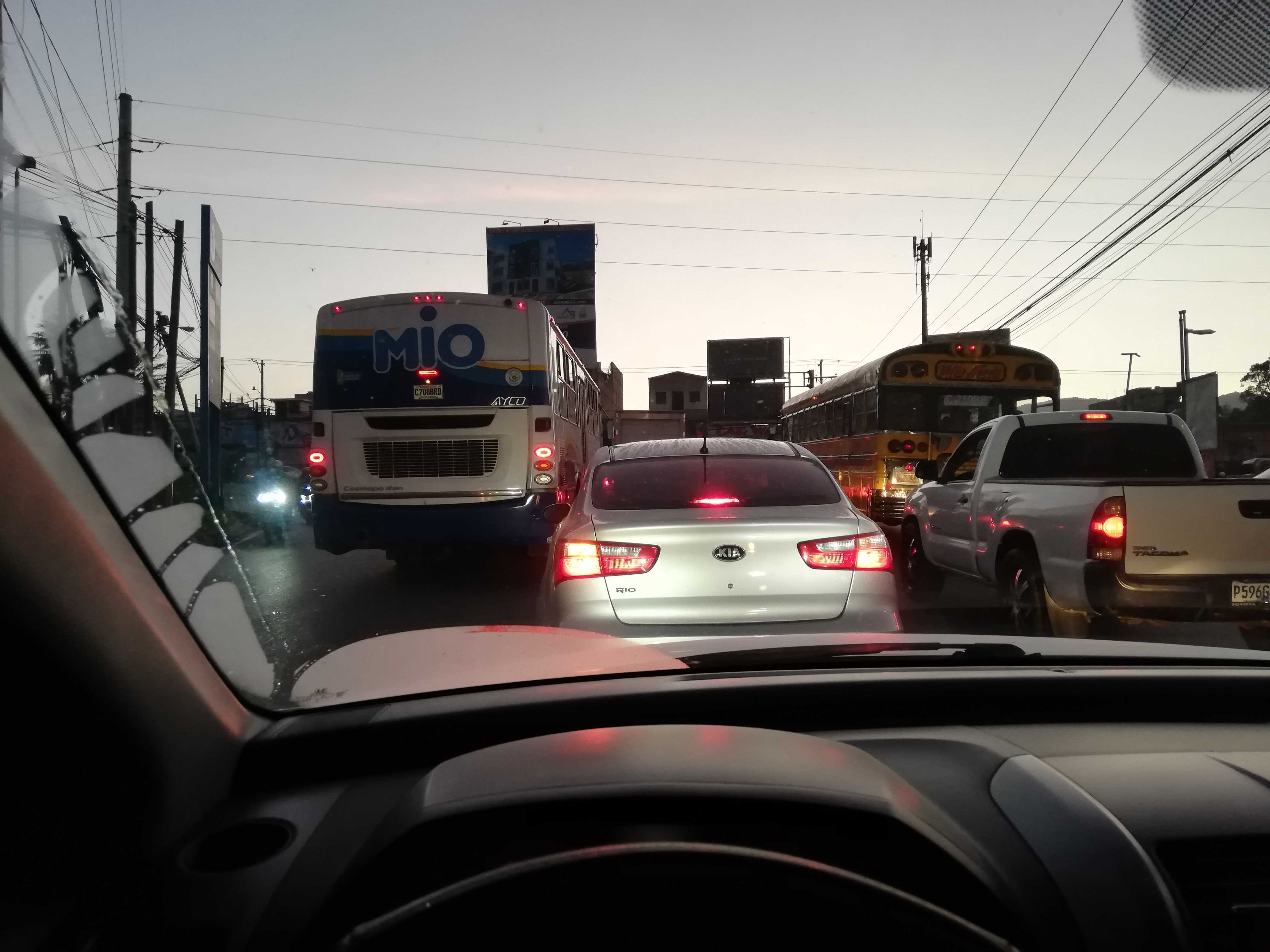 Horas Pico en Villa Nueva